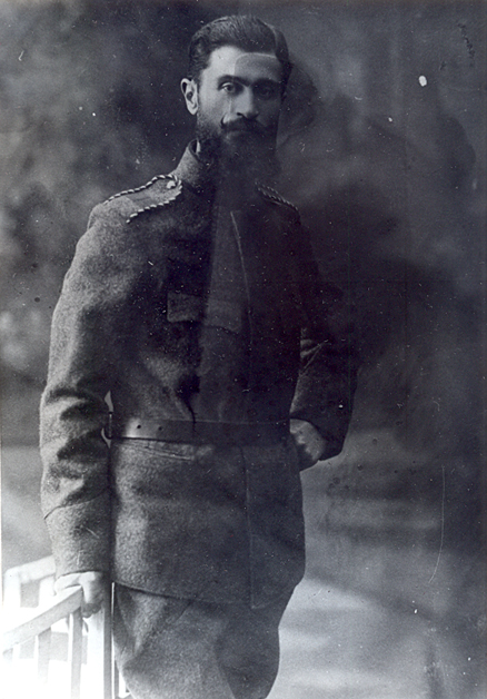 Portrait of Todor Alexandrov.